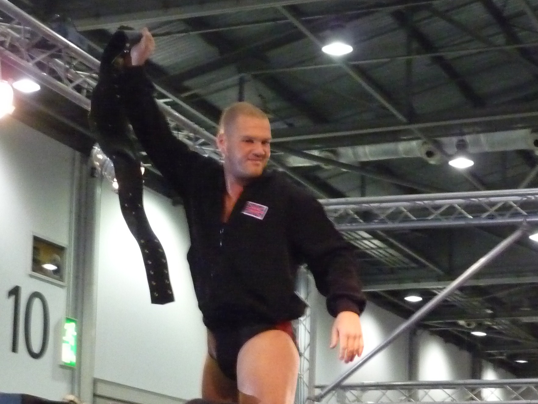 Martin Stone as champion at an FWA show in May 2010.